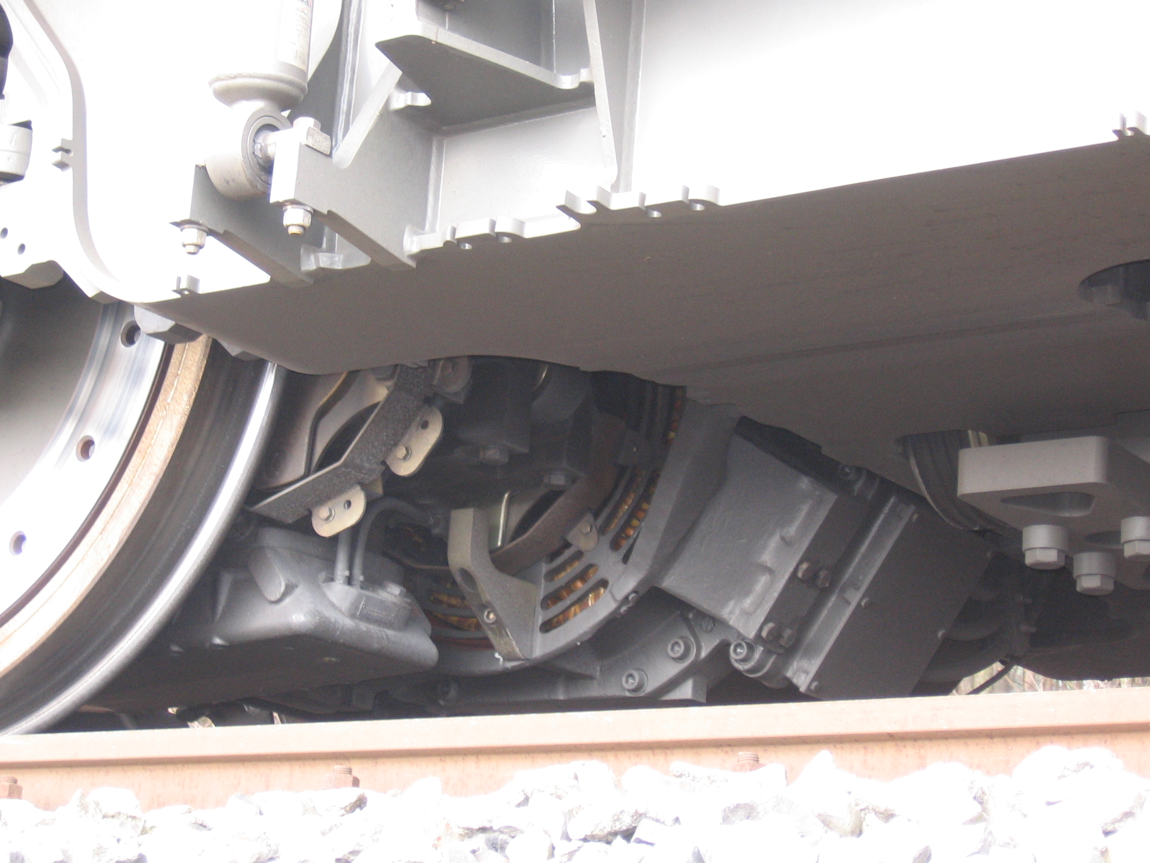 Traction motor and its connection with the pinion on the hollow shaft on 193.922. Little test circuit Cerhenice